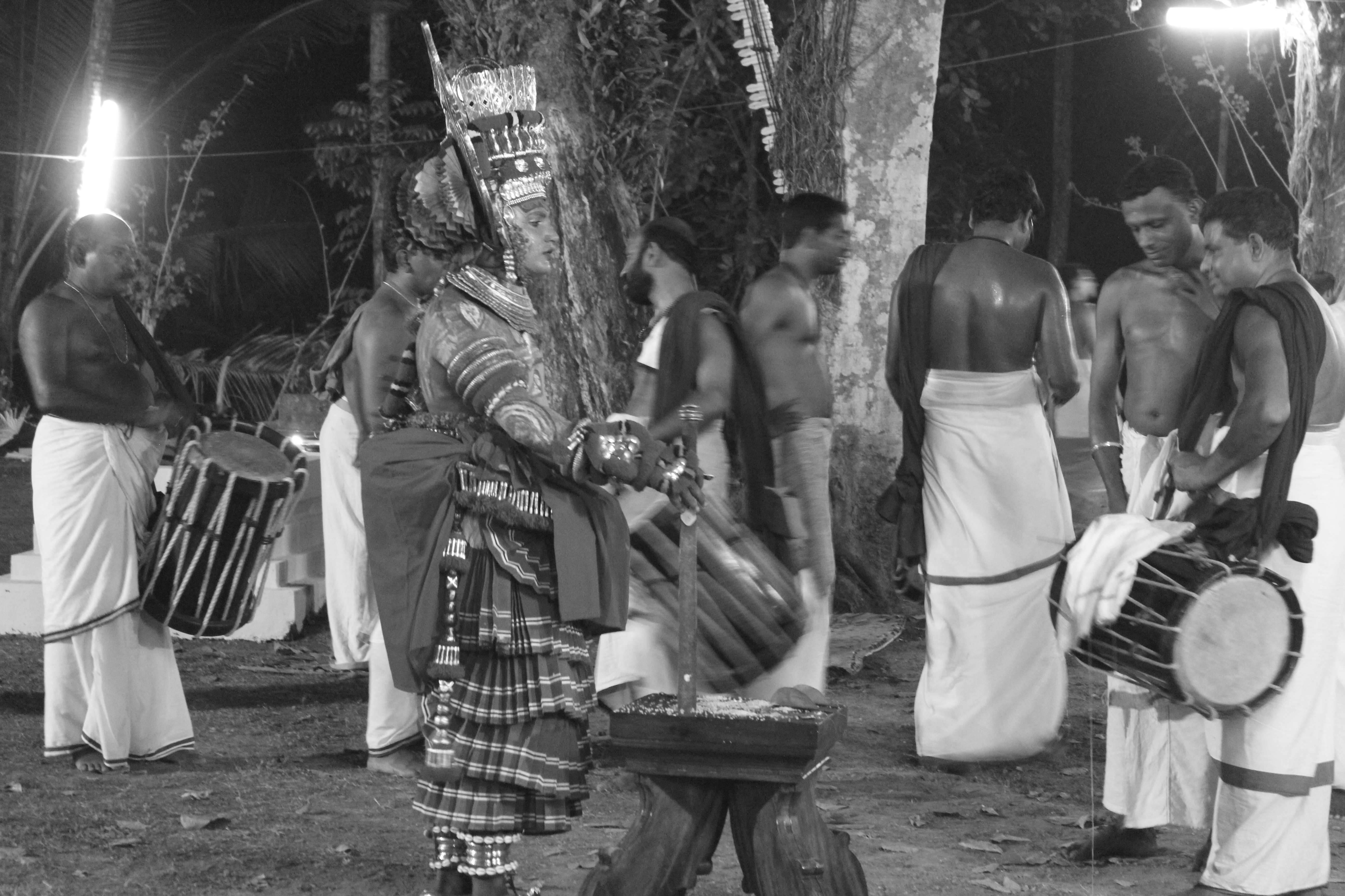 karanavar theyyam